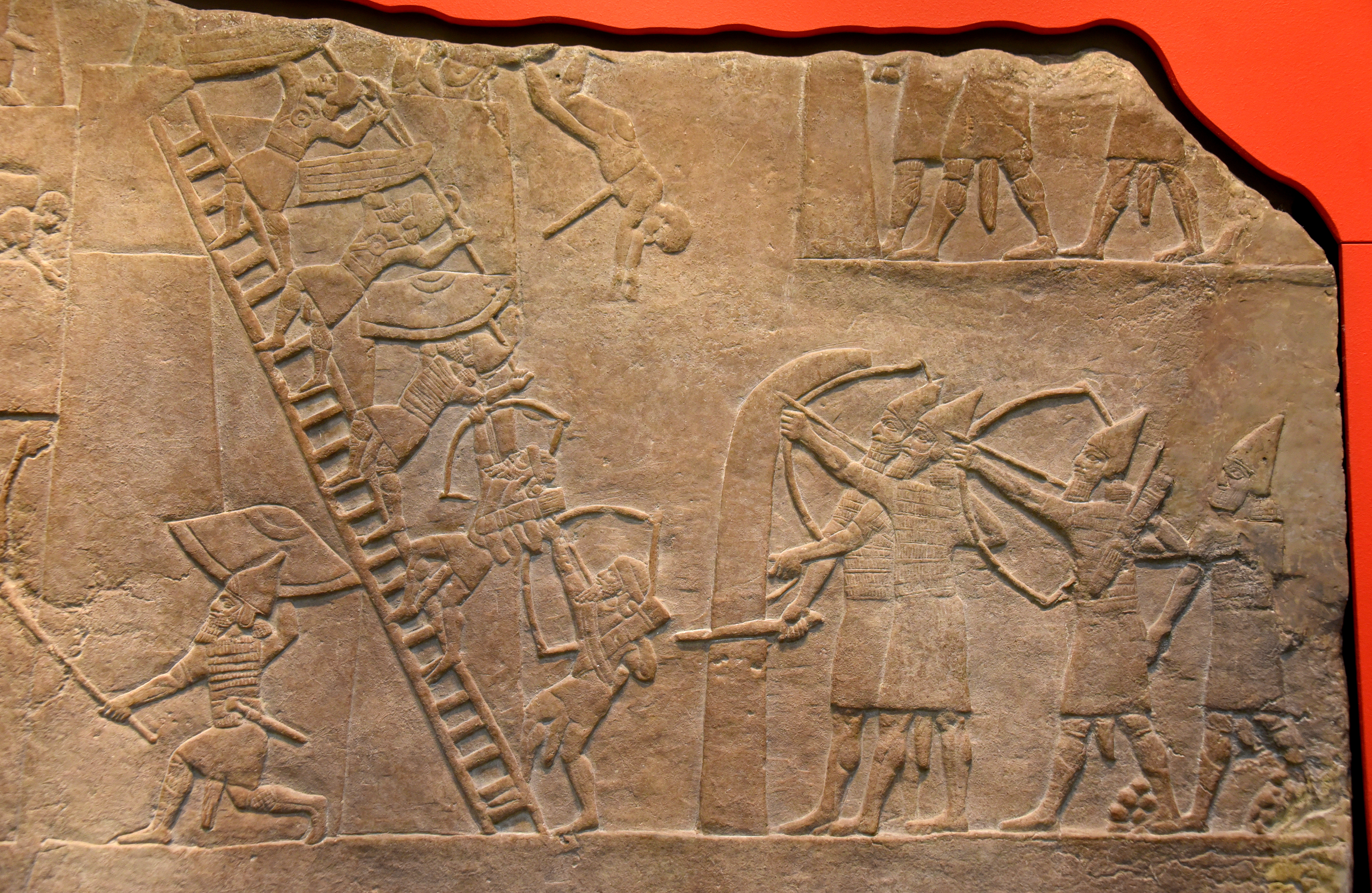 This gypsum panel shows the Assyrian army attacking the Egyptian city of Memphis and commemorates the final victory of the Assyrian king Ashurbanipal II over the Egyptian king Taharqa in 667 BCE. This wall slab was originally painted for the interior walls of Ashurbanipal's palace at Ninevah. At the top, the overwhelming wave of the Assyrian army storms the Egyptian fortress tries to set fire to the gate and undermines the walls. The Nubian soldiers, recognizable by their single upright feathers on their heads, are being marched off as prisoners. Egyptian civilian prisoners are shown as a group with two children on a donkey. Below is the River Nile with fish and crabs. Neo-Assyrian Period, 645-635 BCE. Panel 17, Room M of the North Palace at Nineveh, Northern Mesopotamia, modern-day Iraq. British Museum, London.